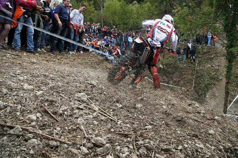 Junior class contestant Michael Pogna riding his KTM at the 2008 World Enduro Championship Grand Prix of Italy in Piediluco.